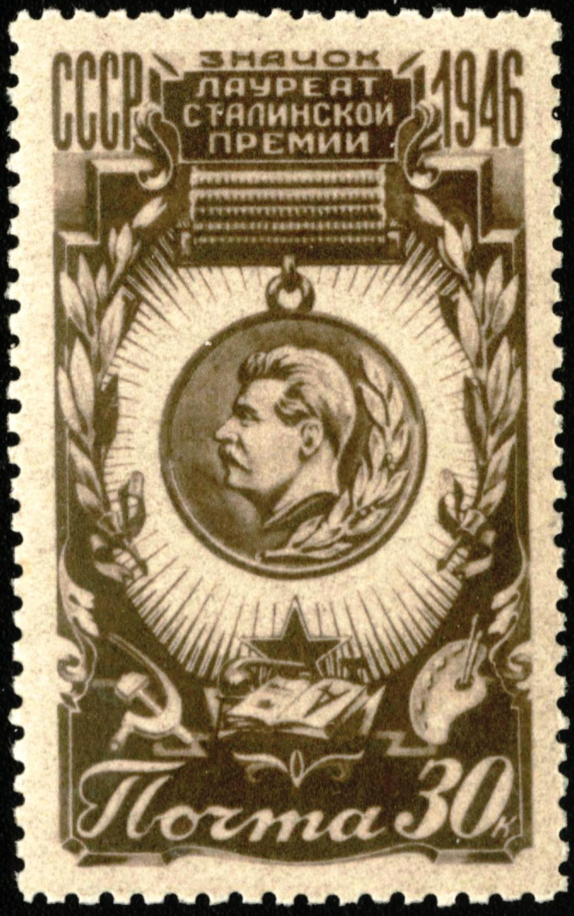 Stamp of the Soviet Union, 1946, depicting medal of Stalin Prize winner. 30 kopecks. CPA #1100. Original uploader's comment: This is a genuine, non-edited stamp image scanned with a natural color attribution, which is monotonous brown, unlike the alternative image processed with computer software to get a multicolor 'beautiful' impression (see below).